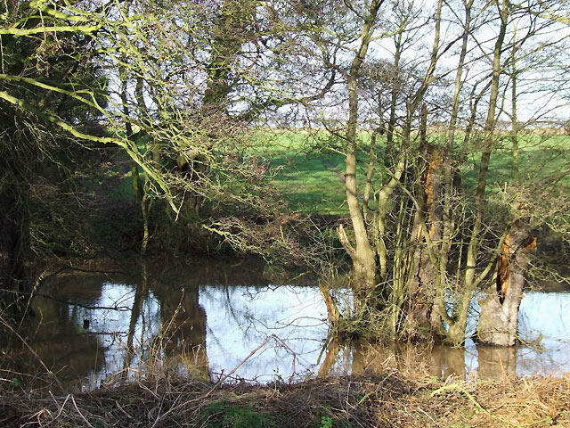 Wooded Pool near Ashwood, Staffordshire Surrounded by farmland and trees, I would think this becomes very brackish in warm summers.